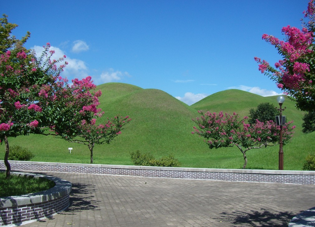 This photo has been taken by Marcopolis (talk) 02:41, 27 February 2008 (UTC), in July 2007 with a digital camera. The photo shows Gyeongju, South Korea.